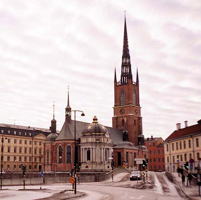 Riddarholm Church, the principle pantheon of Sweden, as released by image creator RistessonPlace: Stockholm, Sweden